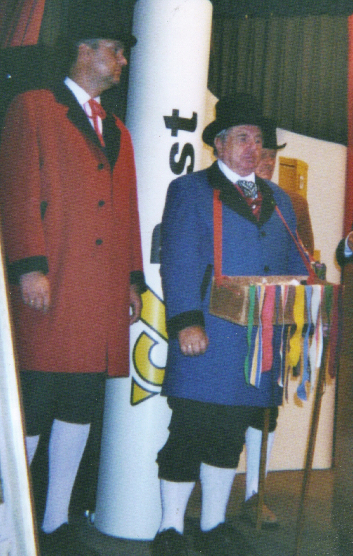 "Bandlkramer" at stamp exhibition opening in Groß-Siegharts (Austria)